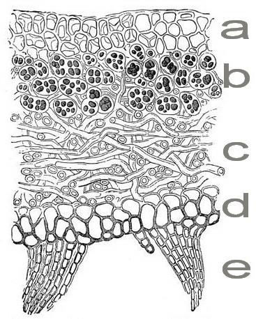 Diagram of Sticta fuliginosa with layers a/b/c/d/e.